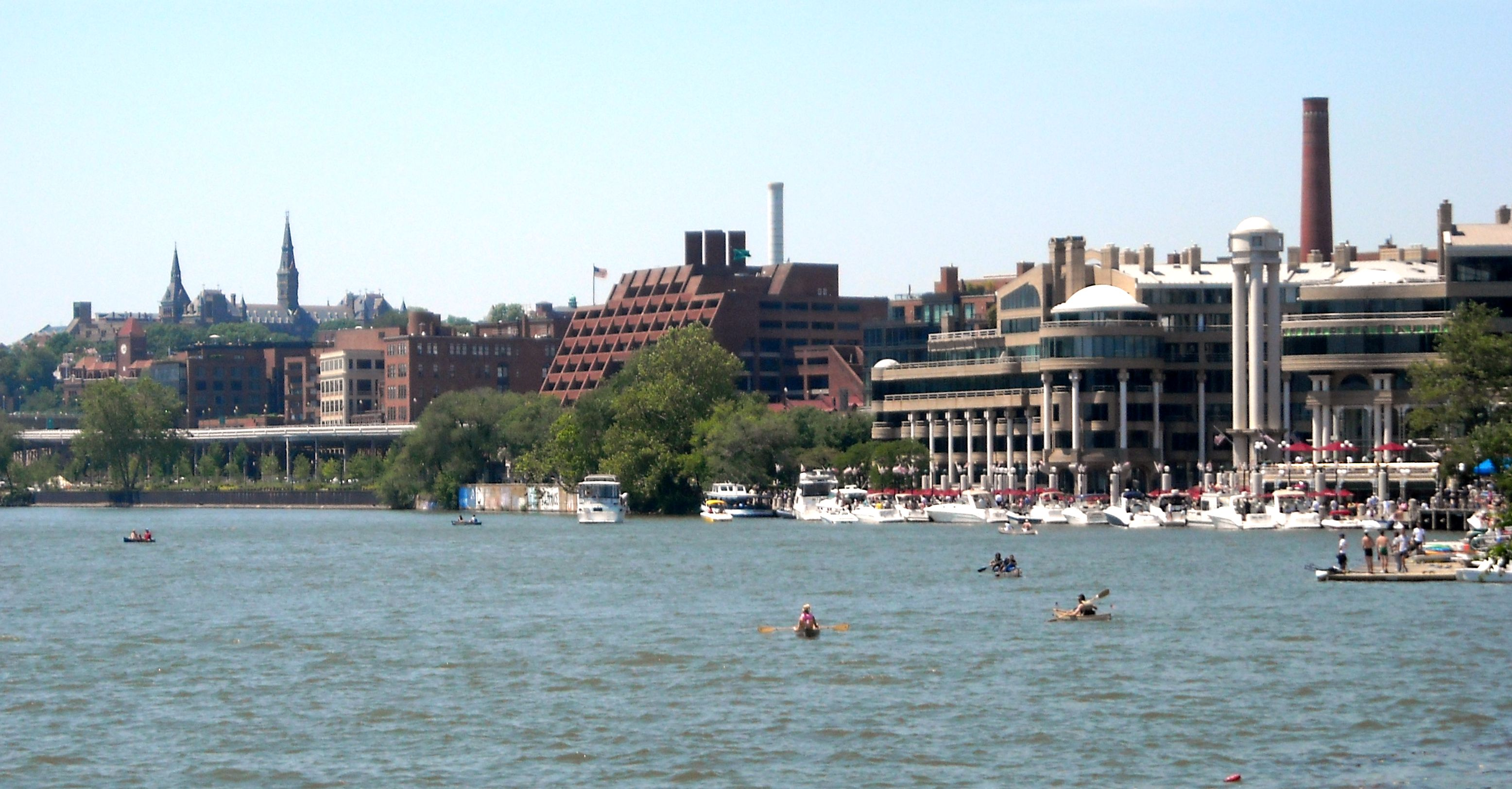 Washington Harbour in Washington, D.C. The two spires of Georgetown University's Healy Hall are visible in the background on the left-hand side.